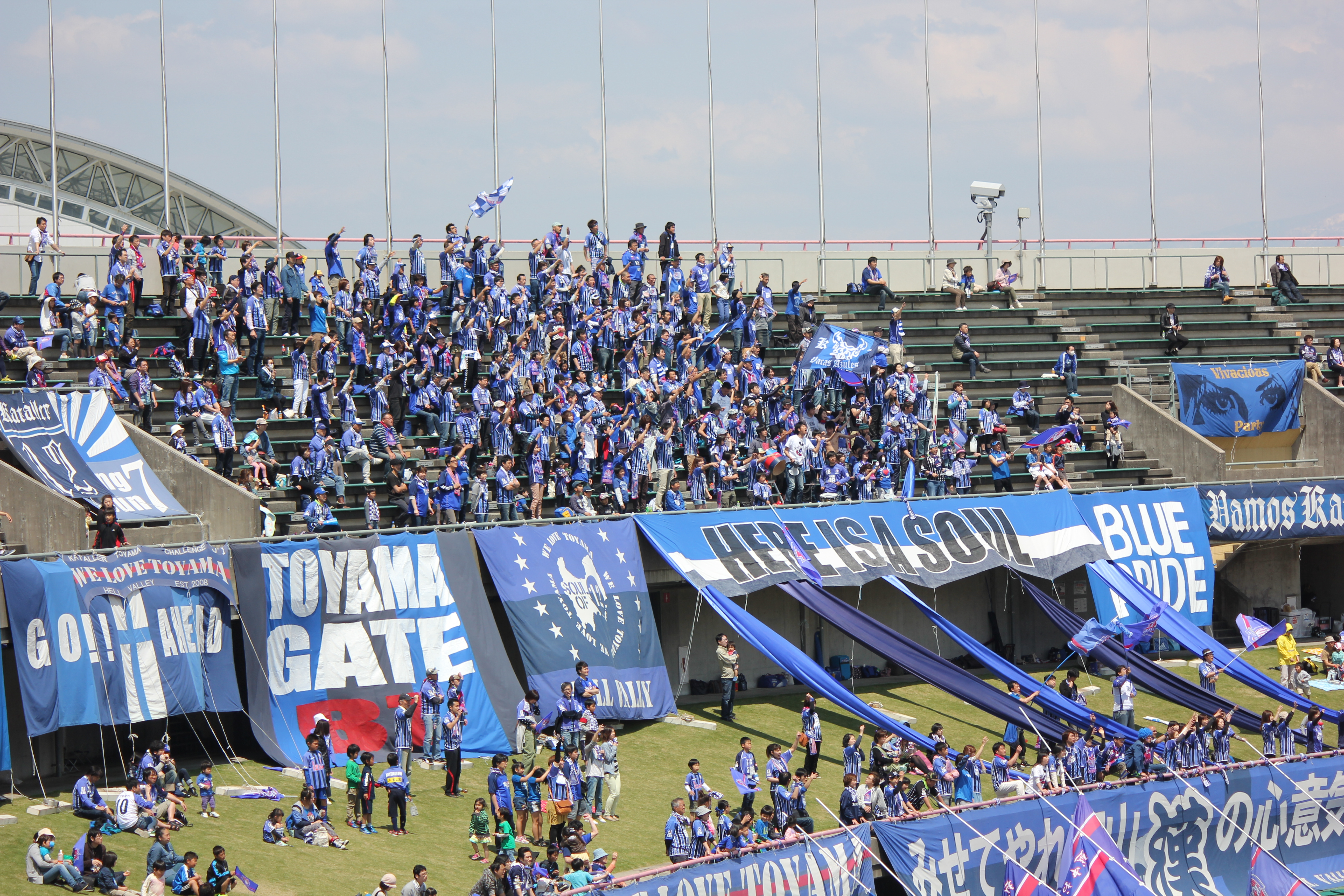 Kataller Toyama Supporters